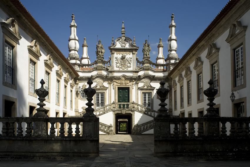 This file was uploaded for Wiki Loves Monuments in Portugal with the unique identifier 71128.